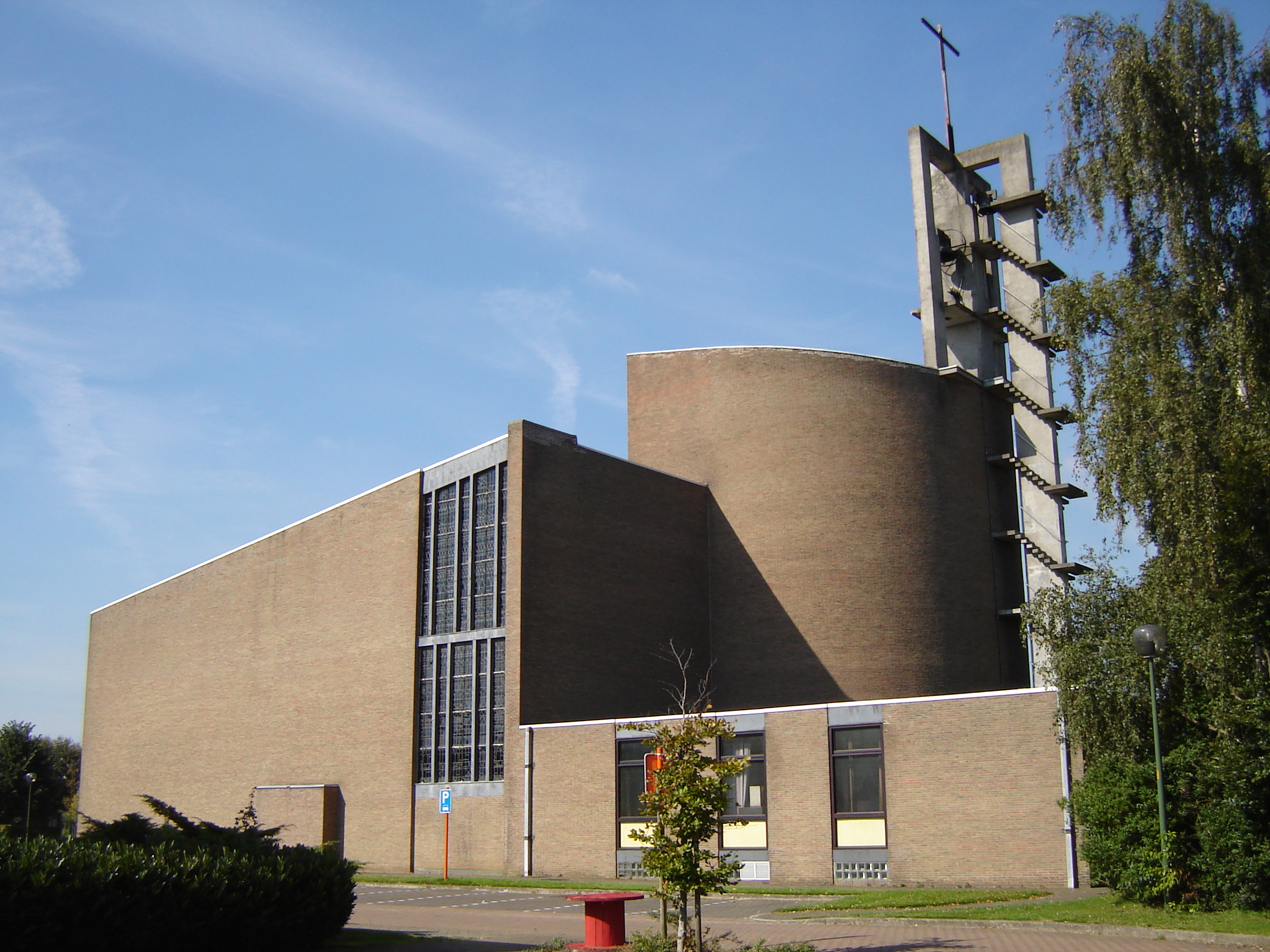 Church of Mary, Mother of God, in Beernem. Beernem, West Flanders, Belgium